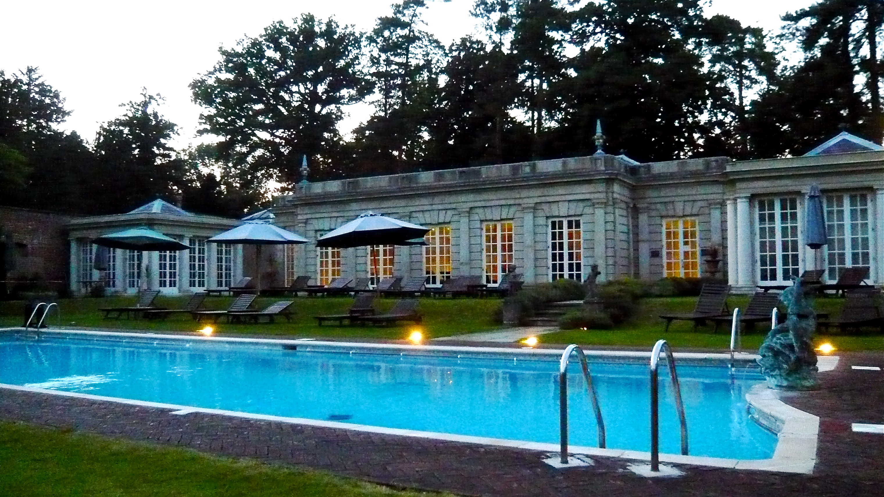 See title.